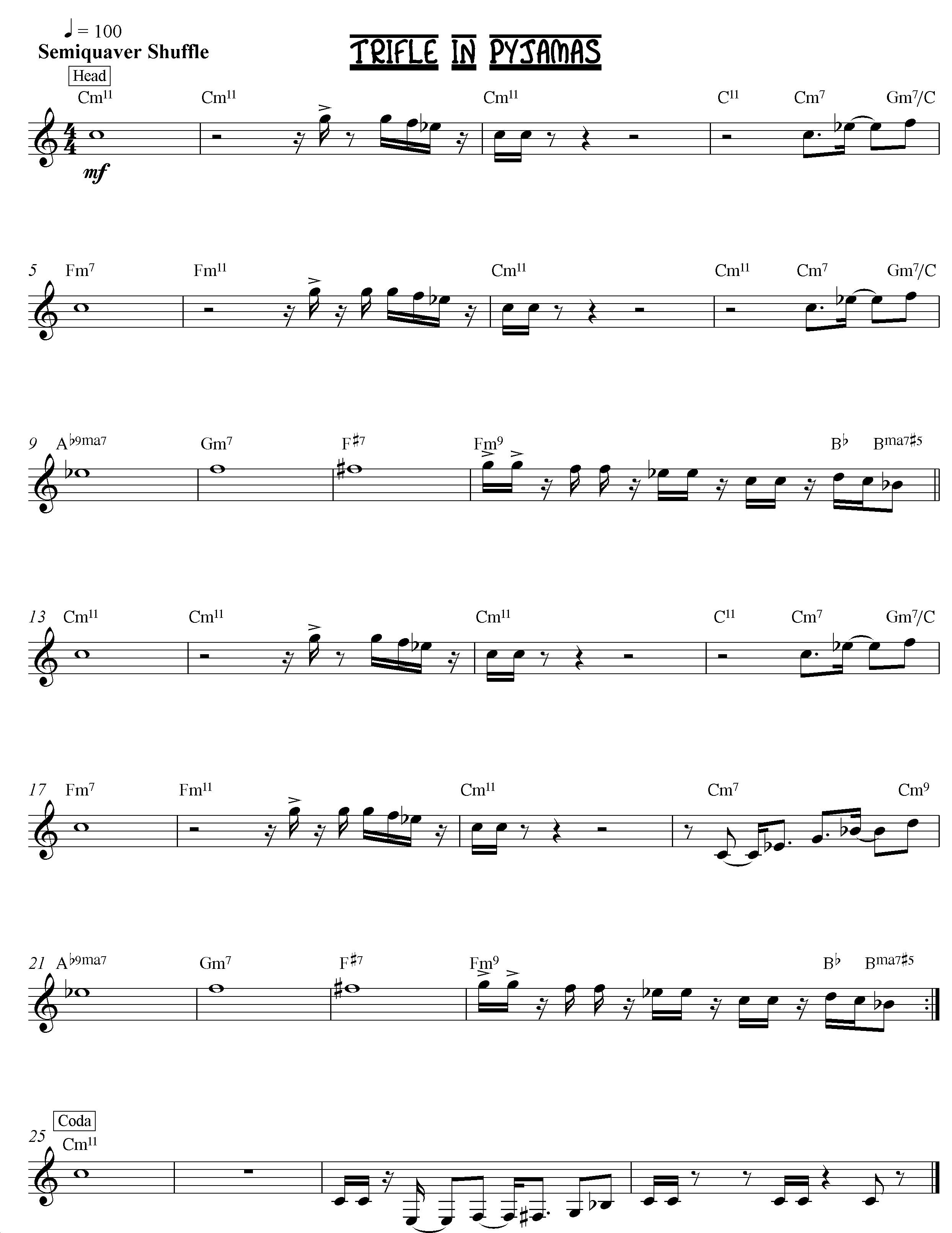 Jazz Funk fusion lead sheet